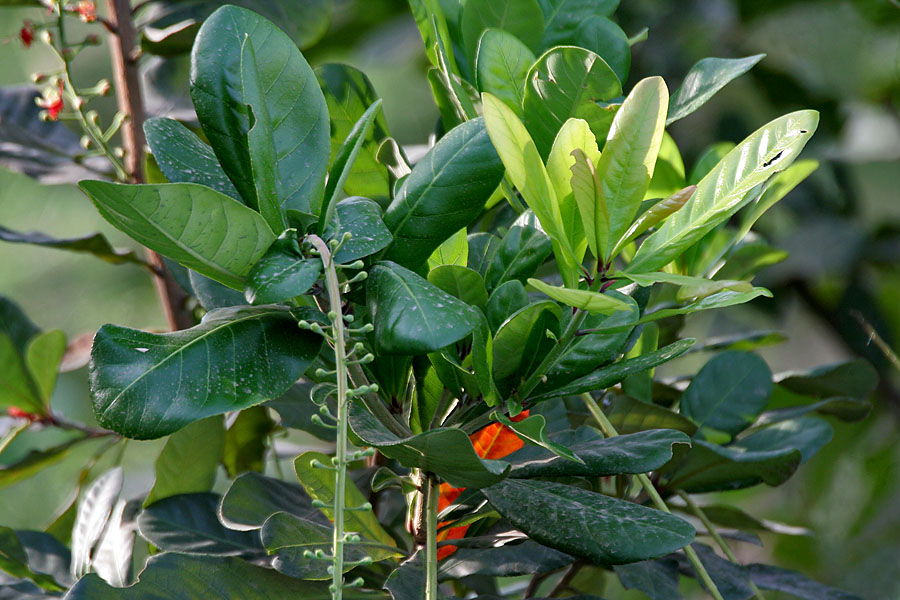 Barringtonia acutangula - Freshwater Mangrove, Indian Oak, Samudraphal, Nivar, Pivar, Hijal at Lotus Pond, Hyderabad, India.